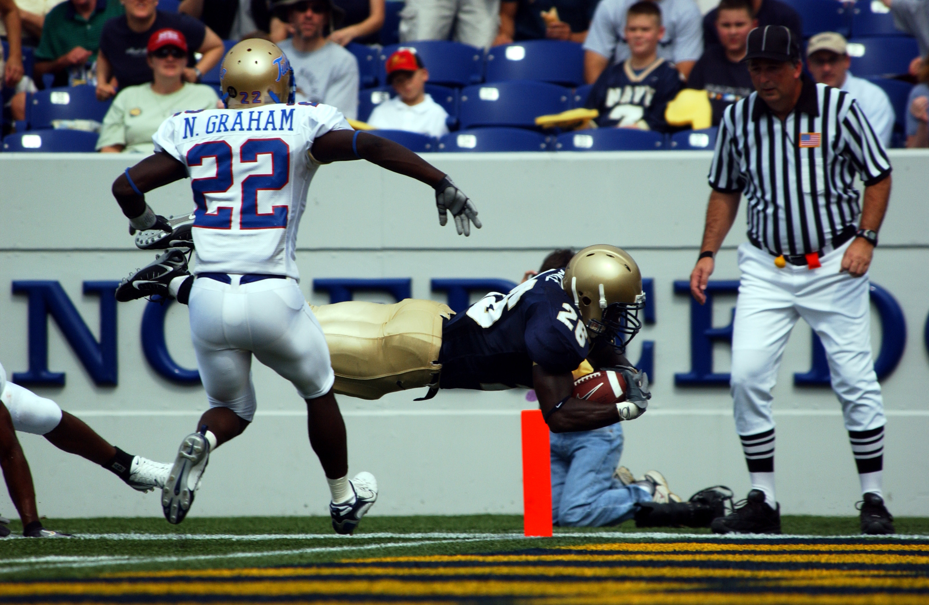 Navy slot back Shun White, #26 scores Navy's first touchdown on a 26-yard run in the second quarter. Navy lost 24-23 against the University of Tulsa’s Golden Hurricanes in the first overtime game in Academy history.